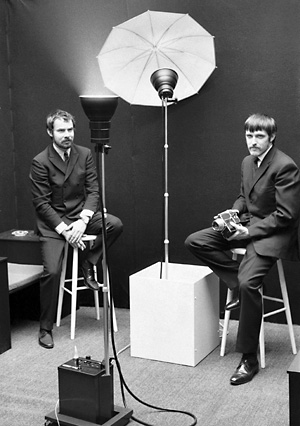 photokina profoto Pro-1 pack in 1967